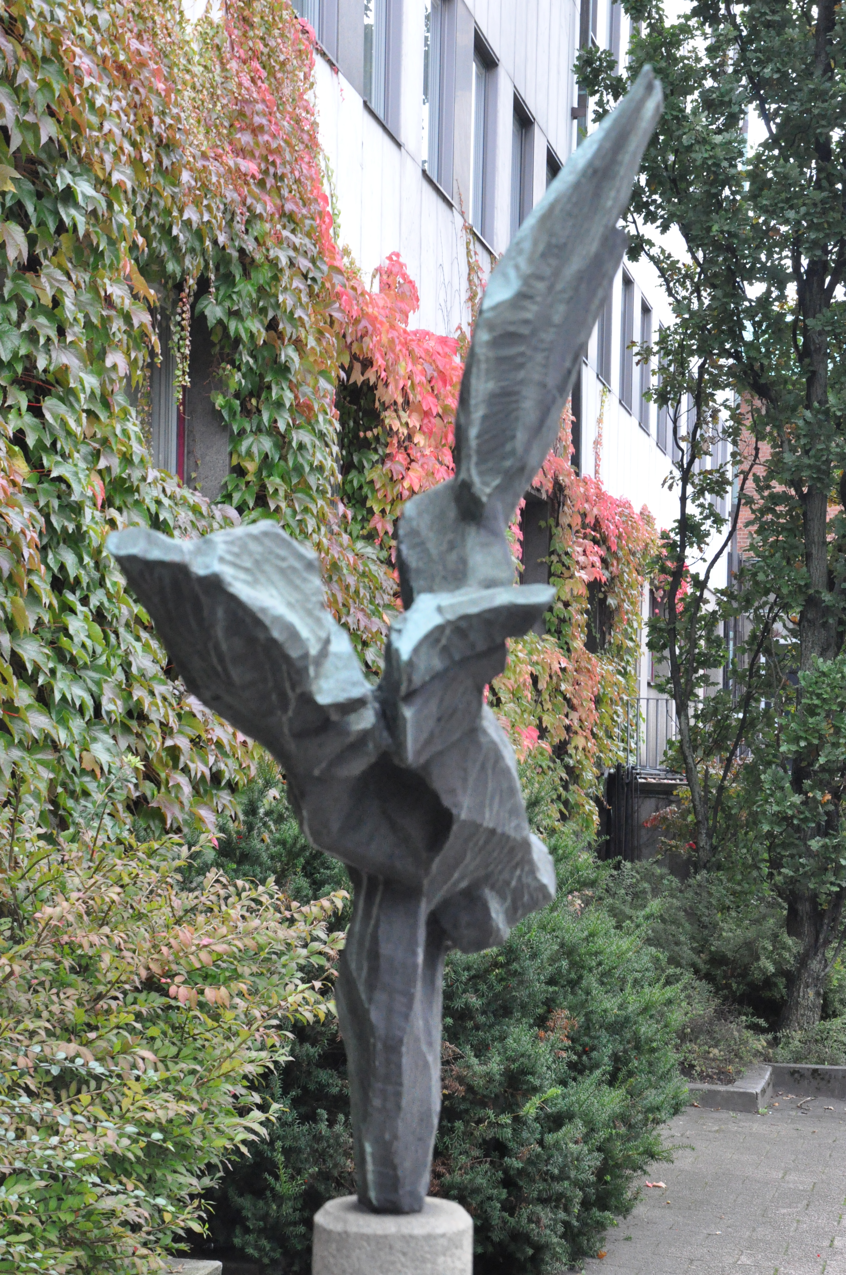 Hjalmar Ekberg's Bevingad, Borås